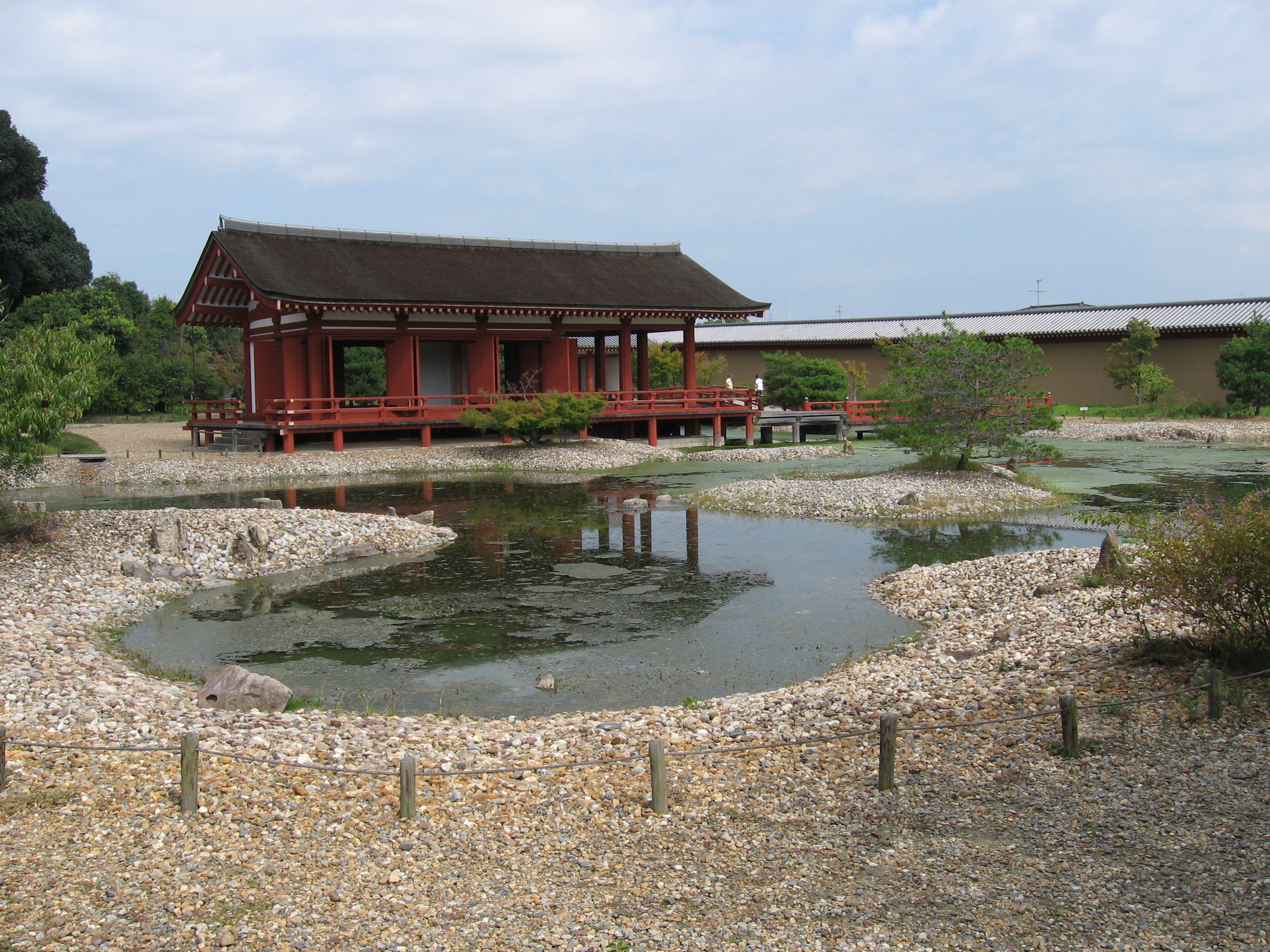 Toin Teien, Imperial garden of Nara Palace. 東院庭園（平城宮跡）